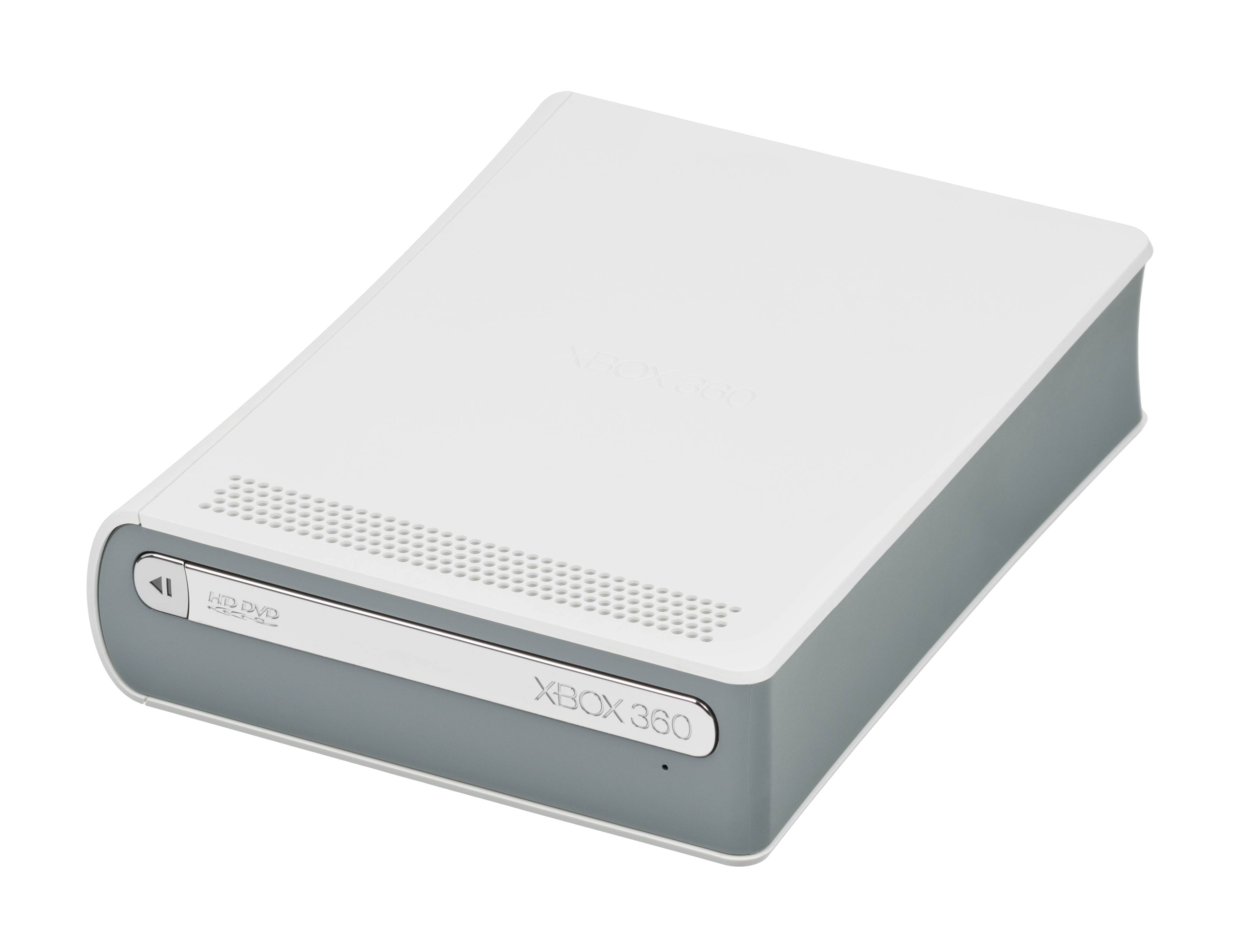 The HD DVD drive for the Xbox 360 video game console, allowing for playback of HD DVD movies on the Xbox 360. The add-on was released in November 2006 at $199, coming with a remote and a copy of the film King Kong on HD DVD. After the failure and discontinuation of the HD DVD format in 2008, remaining stock was liquidated and sold for deep discounts at stores.